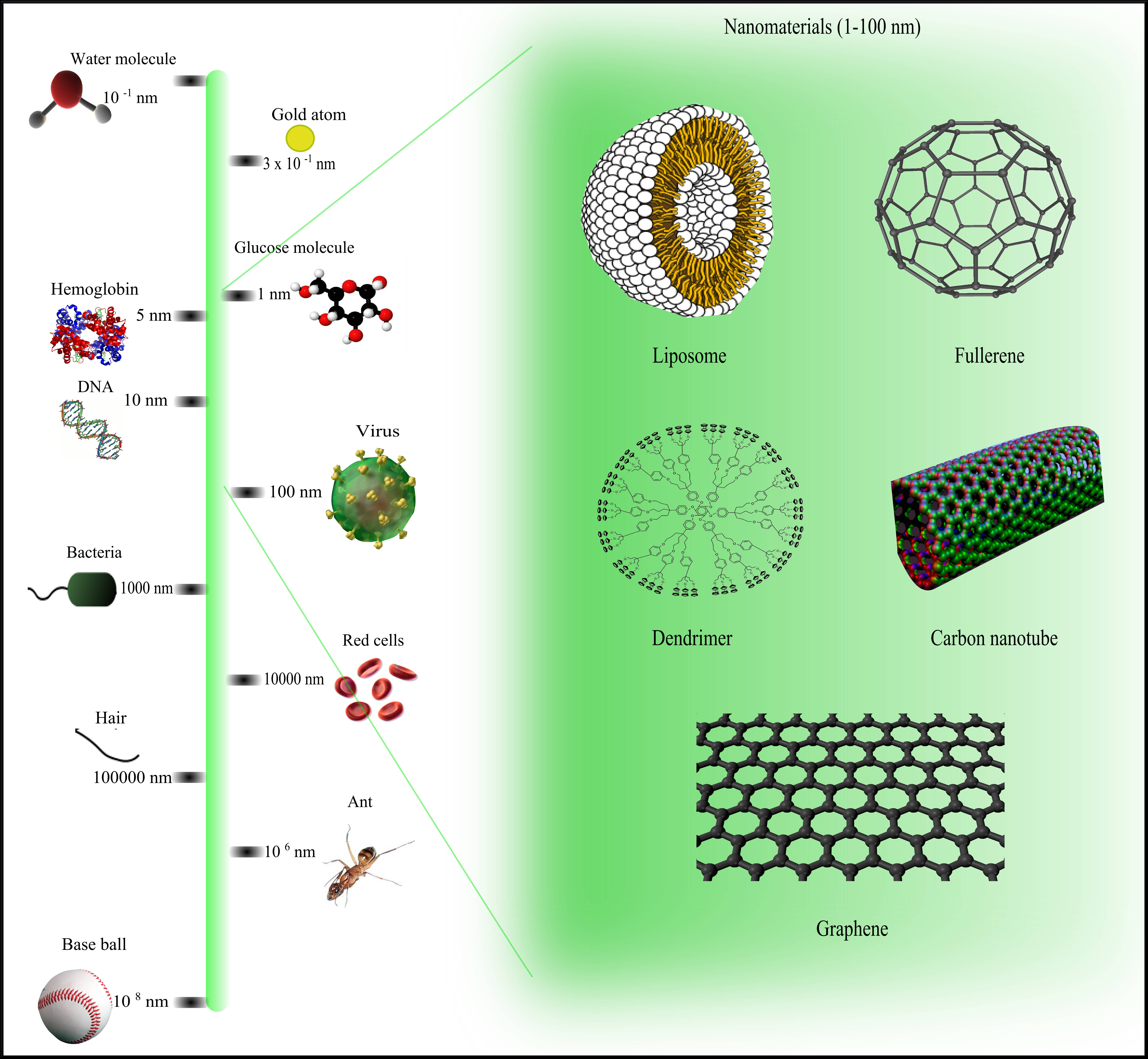 Comparison of the sizes of nanomaterials with those of other common materials. Figures were drawn using Inkscape and GNU Image Manipulation Program (GIMP). All the images in this figure were obtained from Wikimedia Commons.